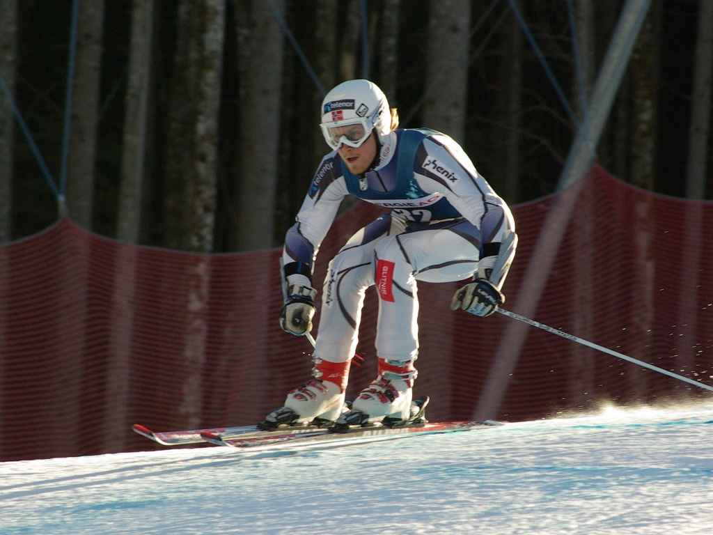 Norwegian alpine skier Leif Kristian Haugen during the European Cup Giant Slalom in Hinterstoder, Austria on January 11, 2008.